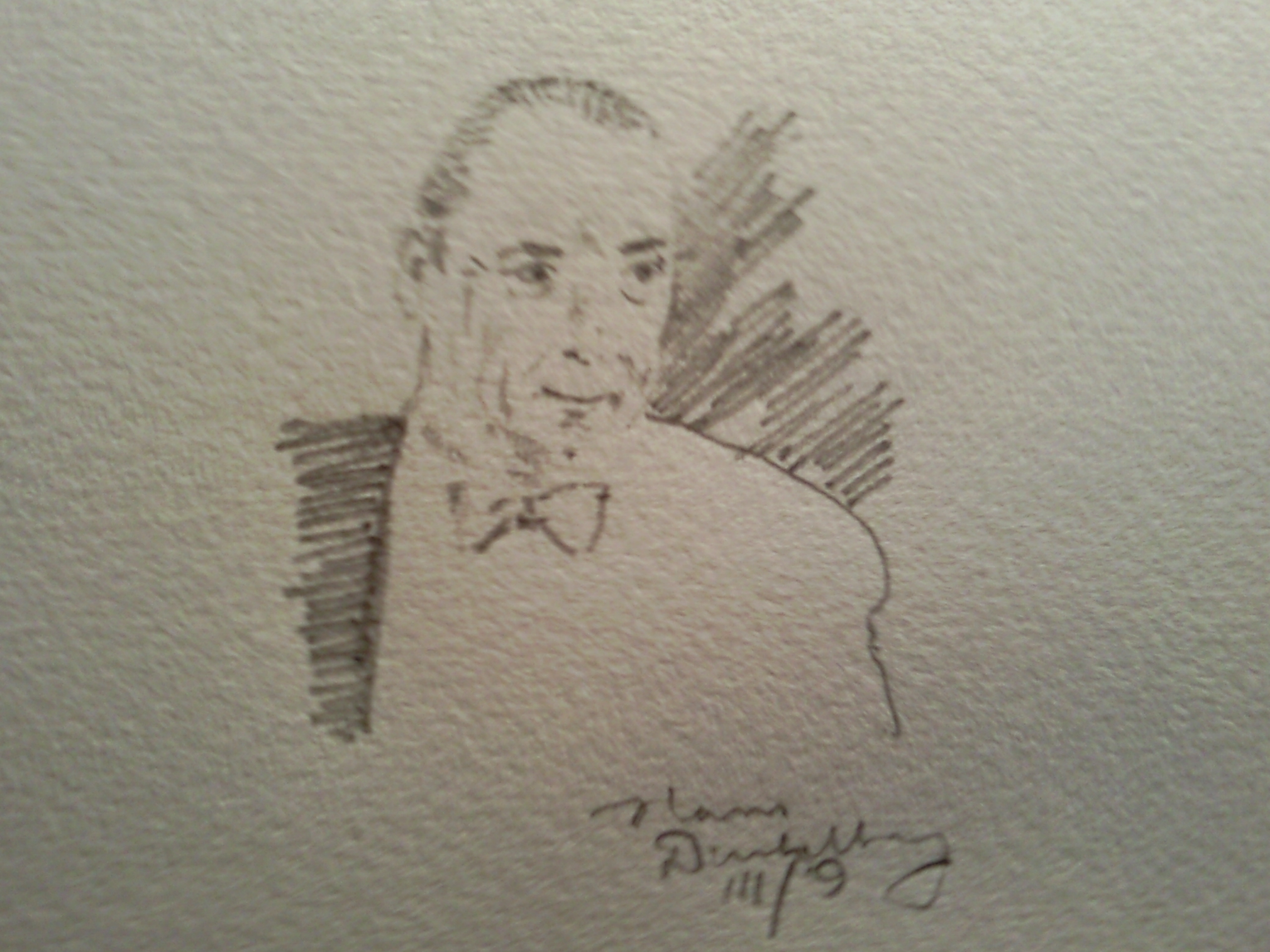 The Czech conductor and composer Karel Ančerl, 1908-1973